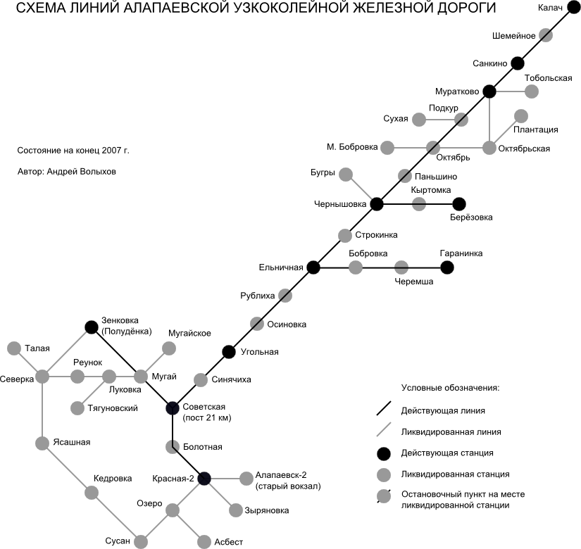 Scheme of Alapayevsk narrow gauge railway (in Russian)